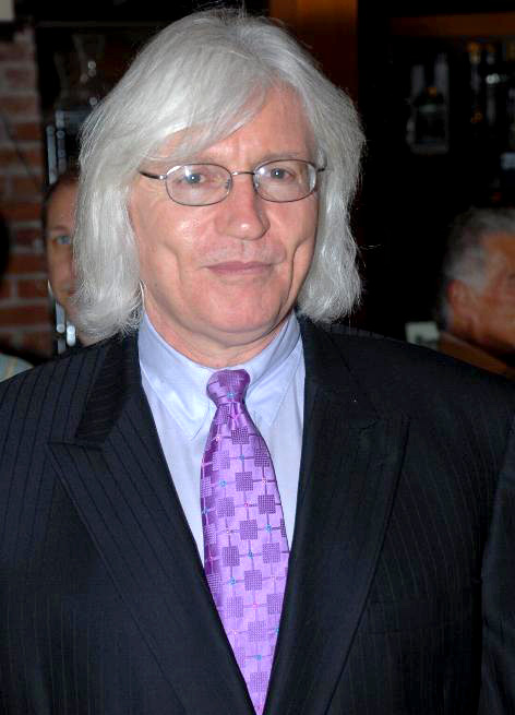 Thomas Mesereau at the launch of Mamie Van Doren's new wine